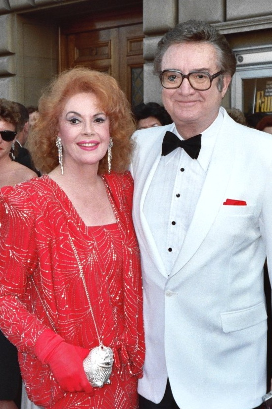 Steve Allen and wife Jayne Meadows at the 39th Emmy Awards - Sept. 1987